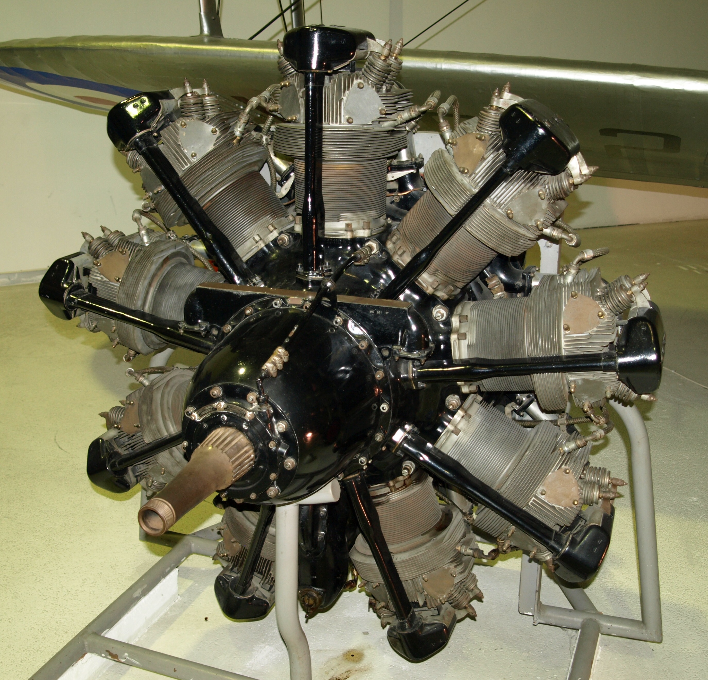 Bristol Mercury aircraft piston engine on display at the Royal Air Force Museum London.